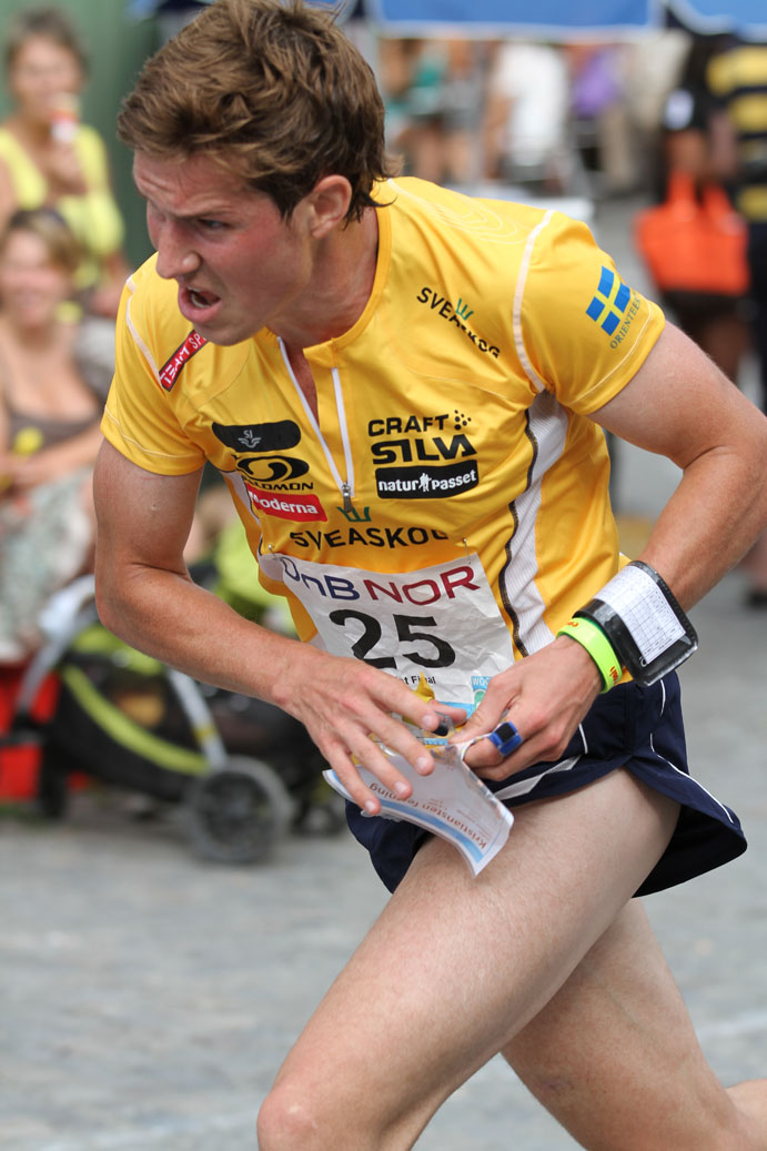 Martin Johansson at WOC 2010